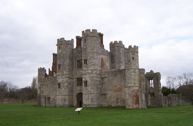 Titchfield Abbey-Titchfield This huge pile is called the Gate House. It has many huge fire places in it.